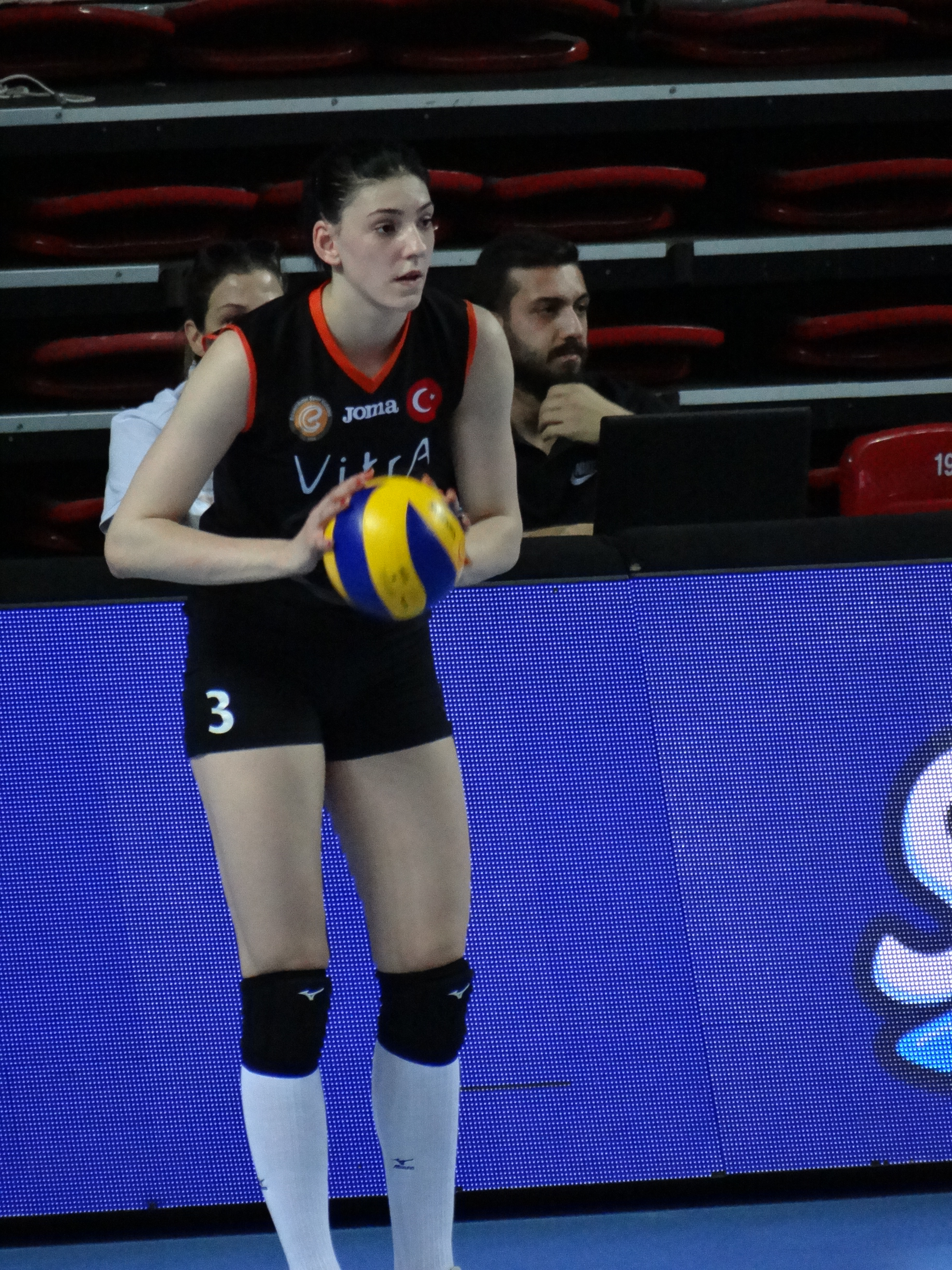 Tijana Bošković 3 Eczacıbaşı VitrA TWVL 20180426